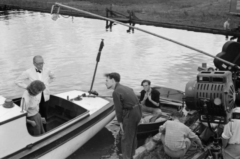 Channel Incident- the Production of a Ministry of Information Film, UK, September 1940 Anthony Asquith (centre) directs Peggy Ashcroft and Gordon Harker (left) in 'Channel Incident', a film about the evacuation of Dunkirk made by Denham and Pinewood Studios for the Ministry of Information in 1940. The stars are standing on board a motor yacht, named the 'Wanderer' in the film. The microphone boom canbe seen over their heads and a large light is also visible to the right of the photograph. Just right of centre, actor Kenneth Griffith can be seen, sitting in a rowing boat.